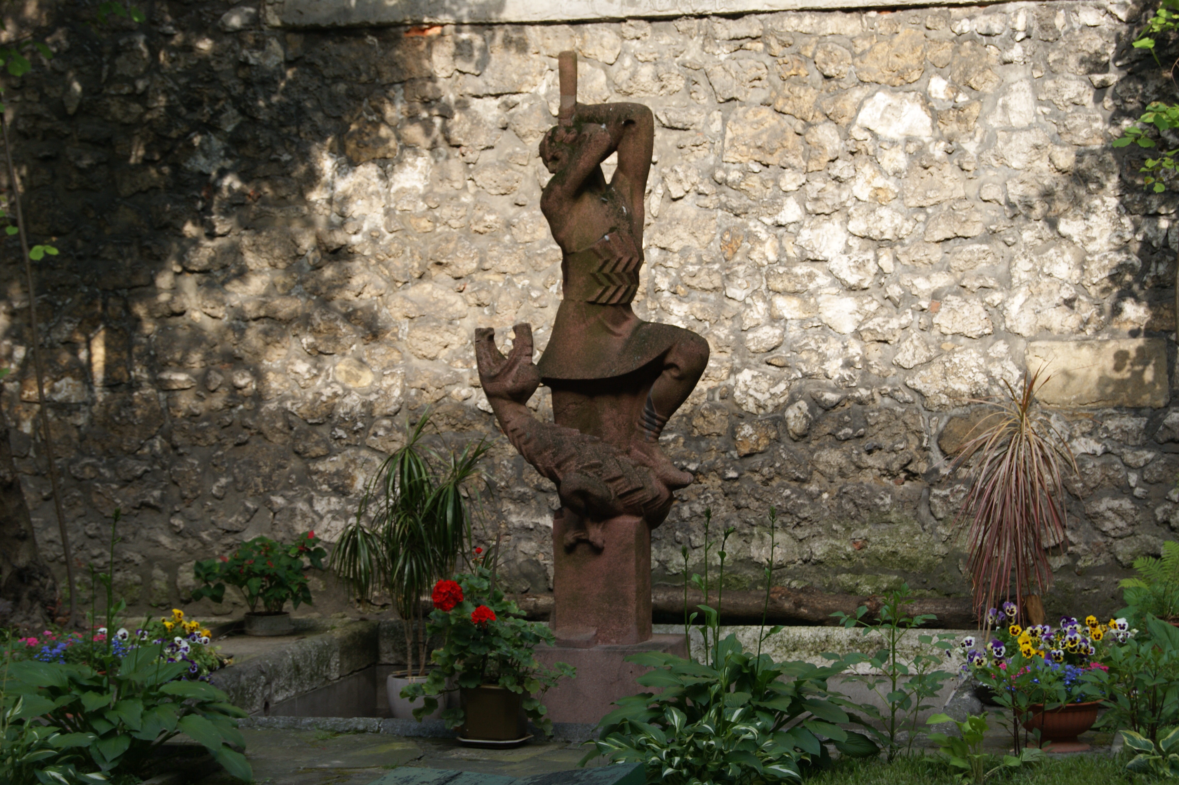 King Krak and Wawel Dragon Memorial (by Franciszek Kalfas-1929), 16 Sienna street, Old Town, Krakow, Poland